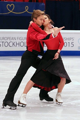 Elena Ilinykh and Ruslan Zhiganshin at the 2015 European Figure Skating Championships.